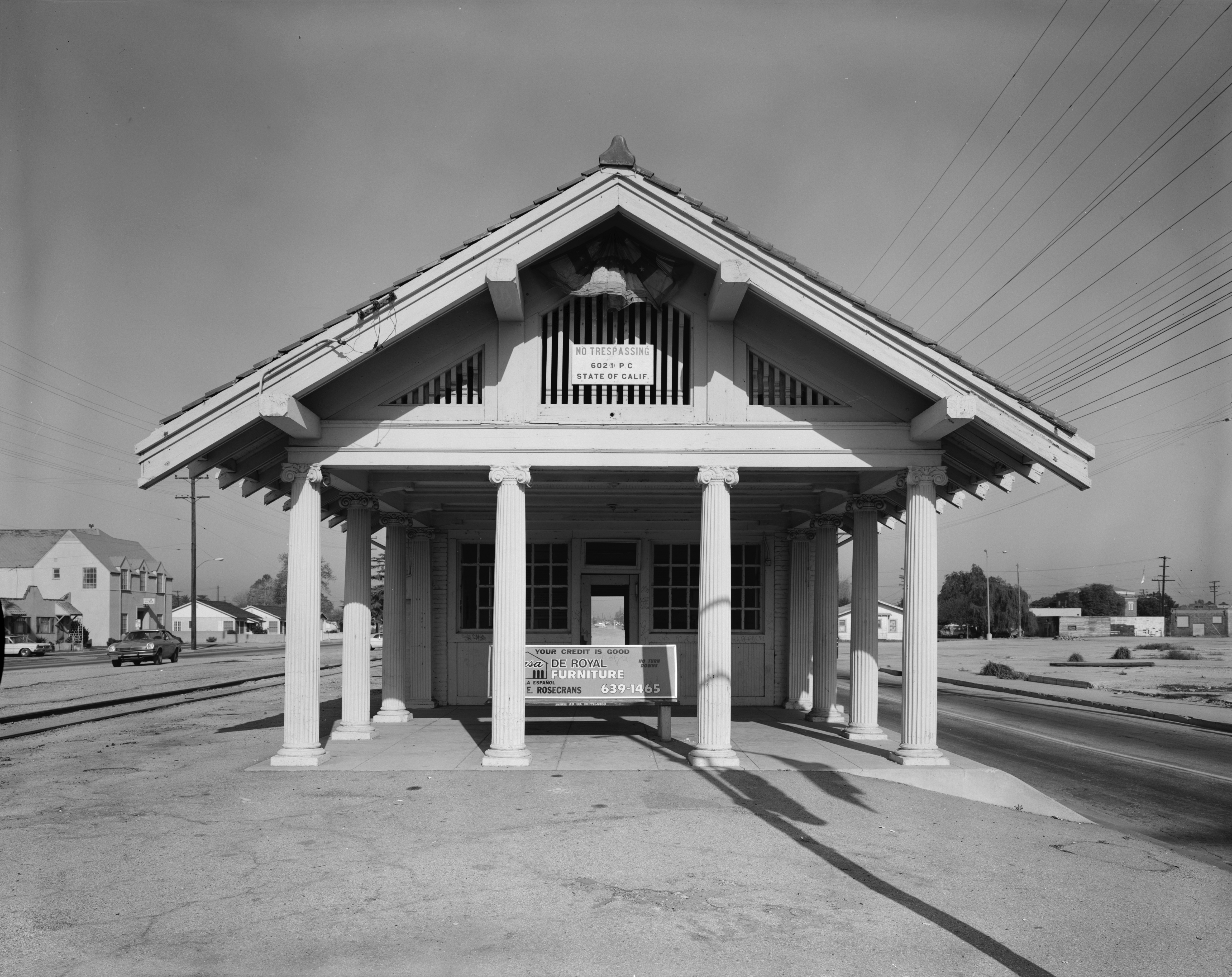 The Lynwood Pacific Electric Railway Depot (southeast side elevation) — a Pacific Electric Railway depot in Lynwood, California. The 1917 depot is on the National Register of Historic Places in Los Angeles County, California. In a "Bernard Maybeck style" − though it was not designed by him. Image (1980): HABS−Historic American Buildings Survey in Los Angeles, California.